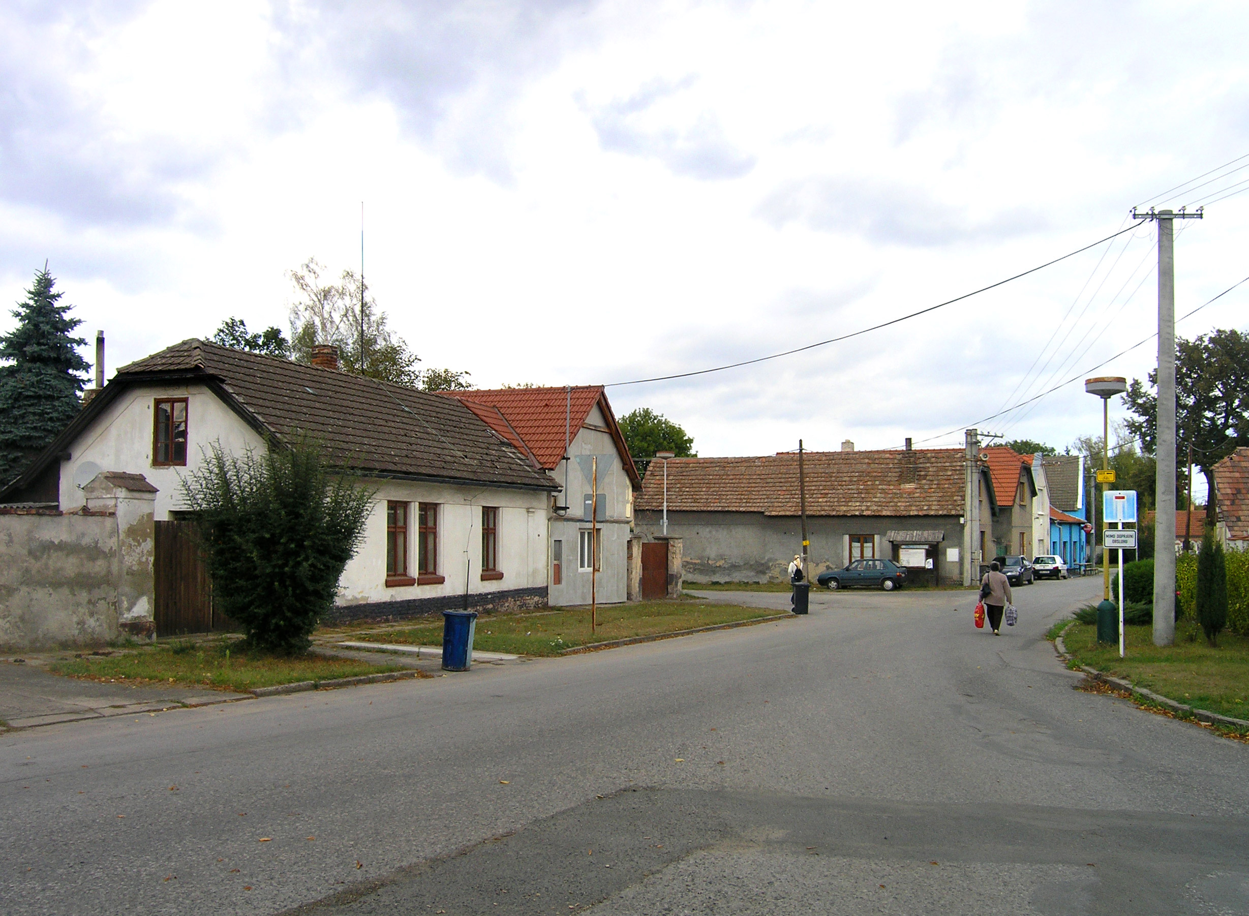 Middle part of Záryby village, Czech Republic